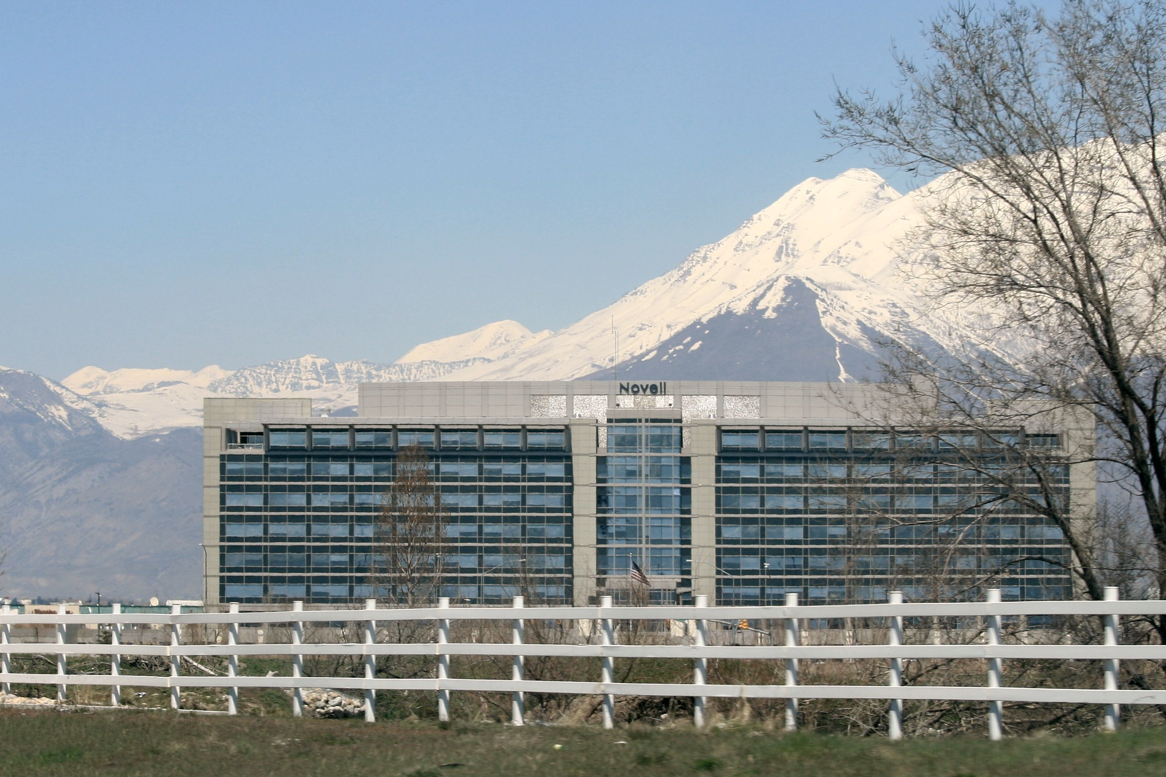 [Modified descr] The company that developed network software and bought the long forgotten (by most) WordPerfect. Now they are mostly a Linux software firm and much much smaller than in the 80's and 90's.